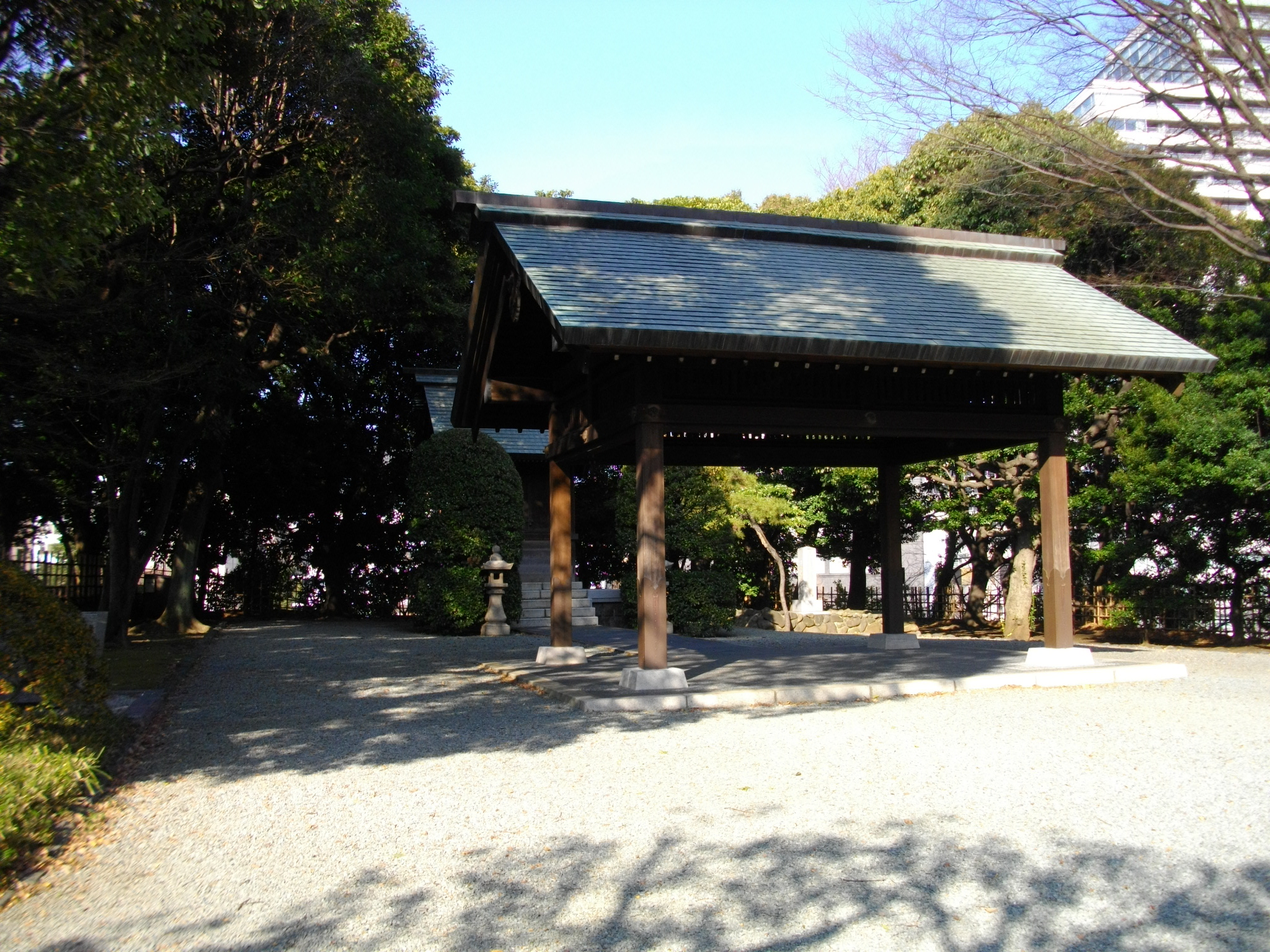 Yayoi Ireido